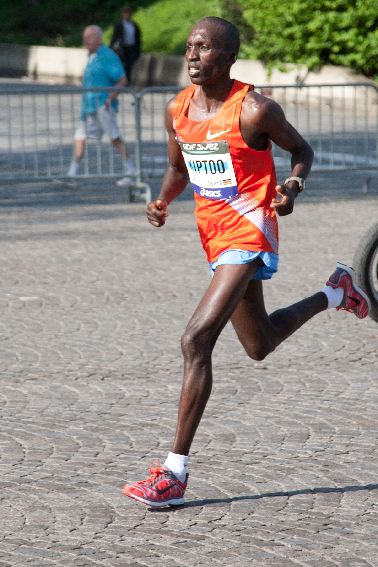 Bejamin Kiptoo at 2011 Paris marathon